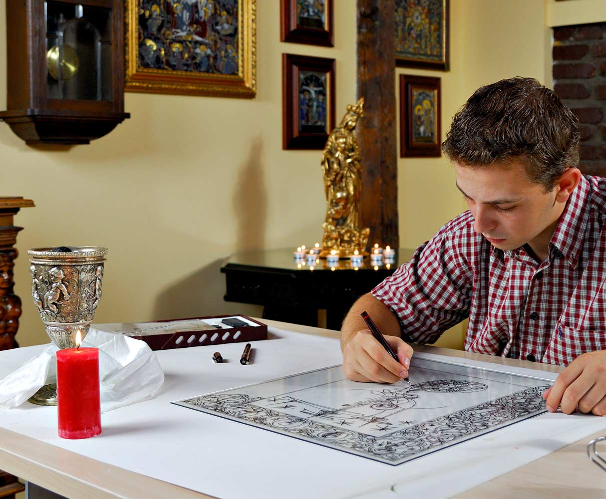 George Huszar, Romanian painter, working on his own stylized manner of a TraditionalReverse Painting on Glass. Romanian Icon tempera & 23 kt. gold leaf gilding placed on Wikipedia w/ Mr. Huszar's permmision — Creative Commons